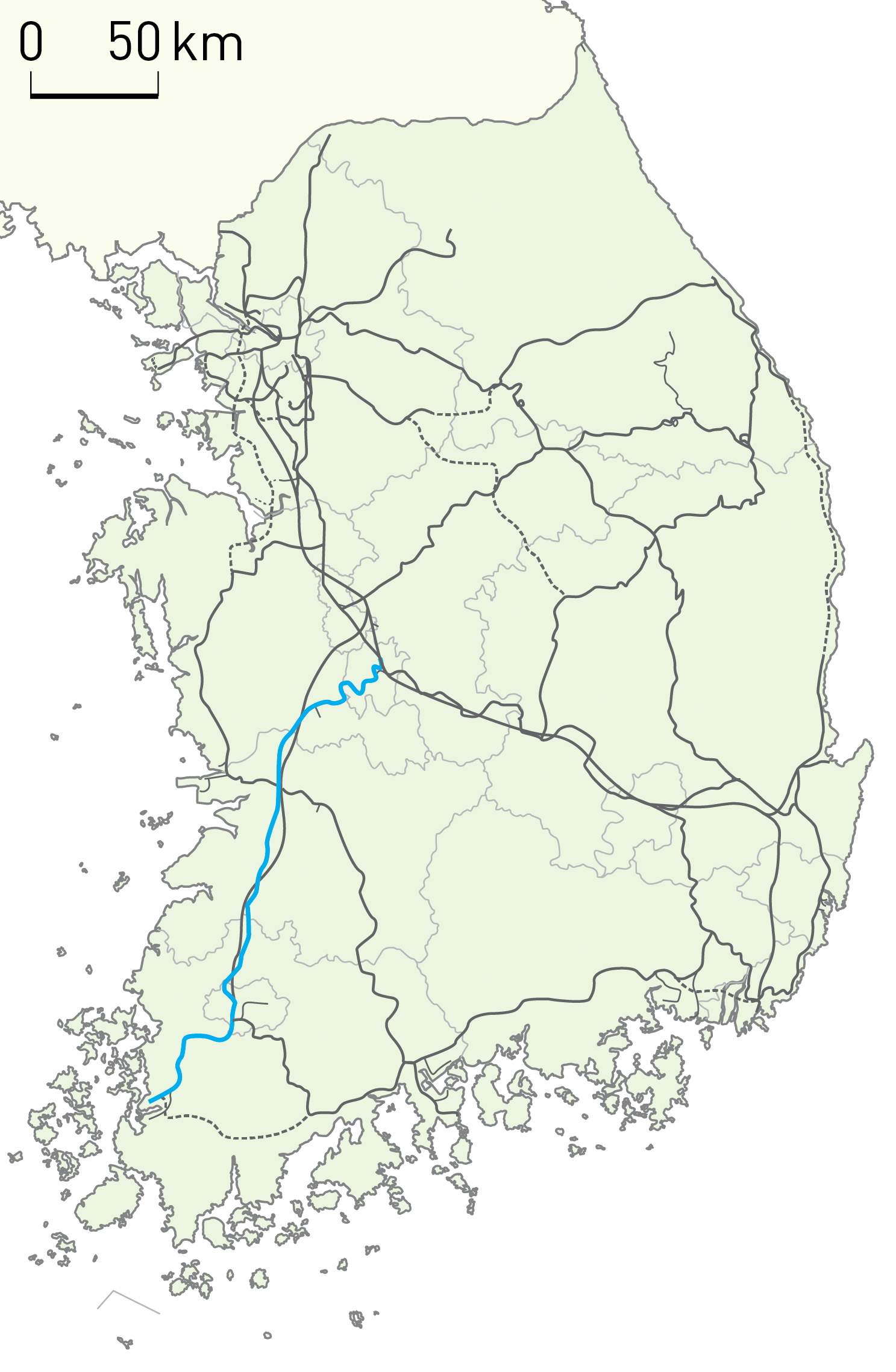 Korail Honam Line route map